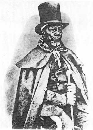 King Moshoeshoe (1786-1870), founder or Lesotho